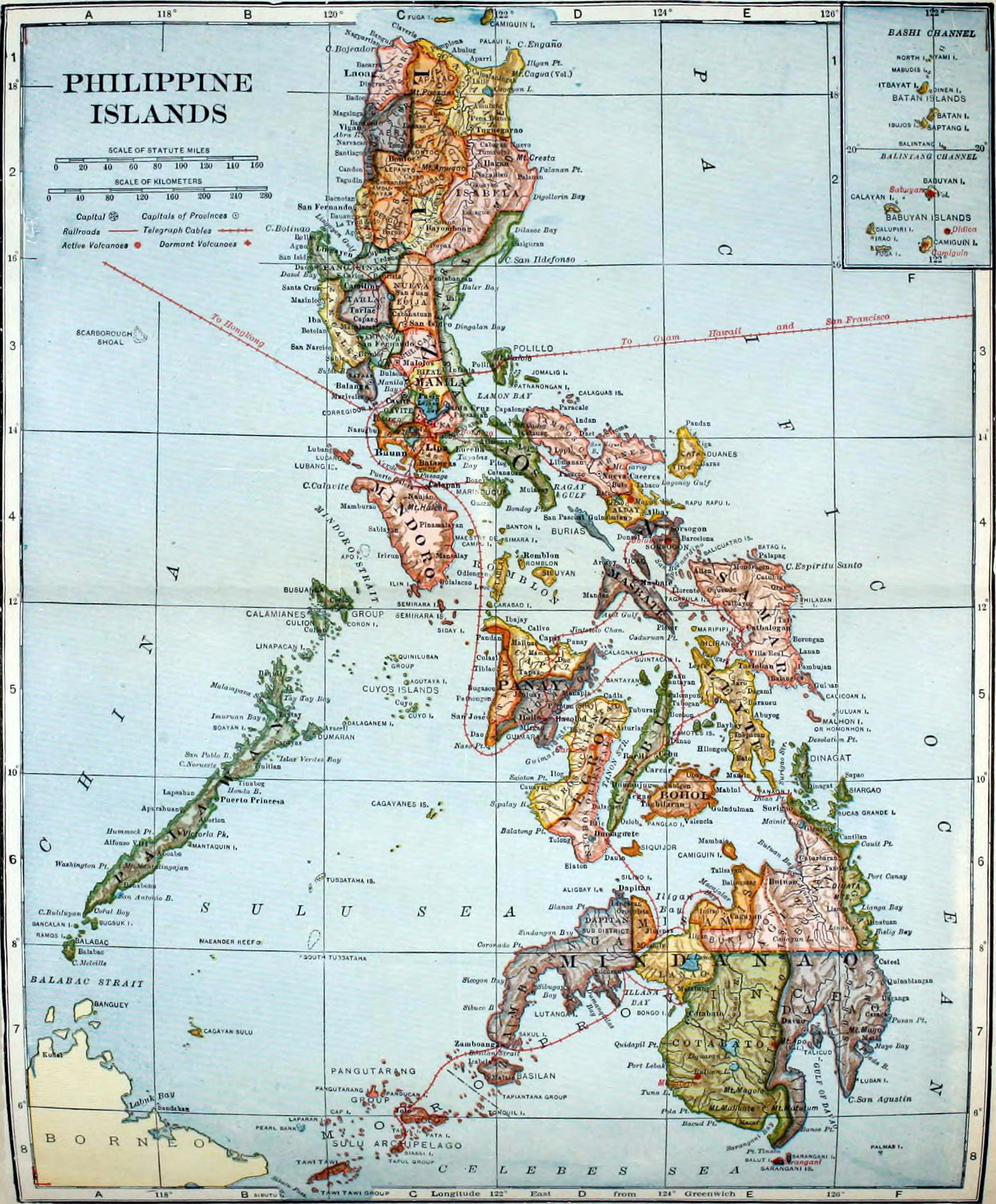 Topographical and political map of the Philippines.